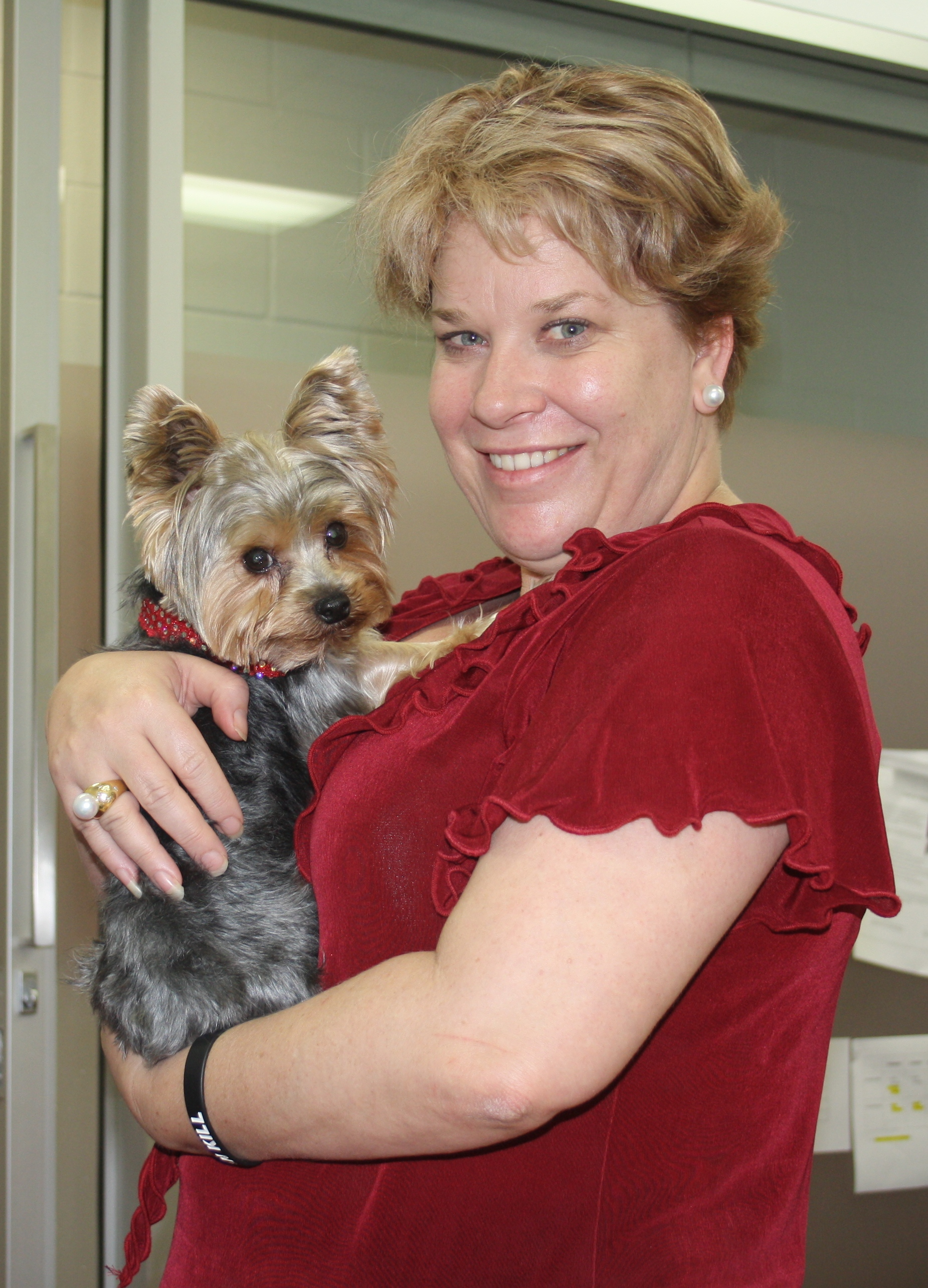 Natasha Griggs MP Federal Member for Solomon